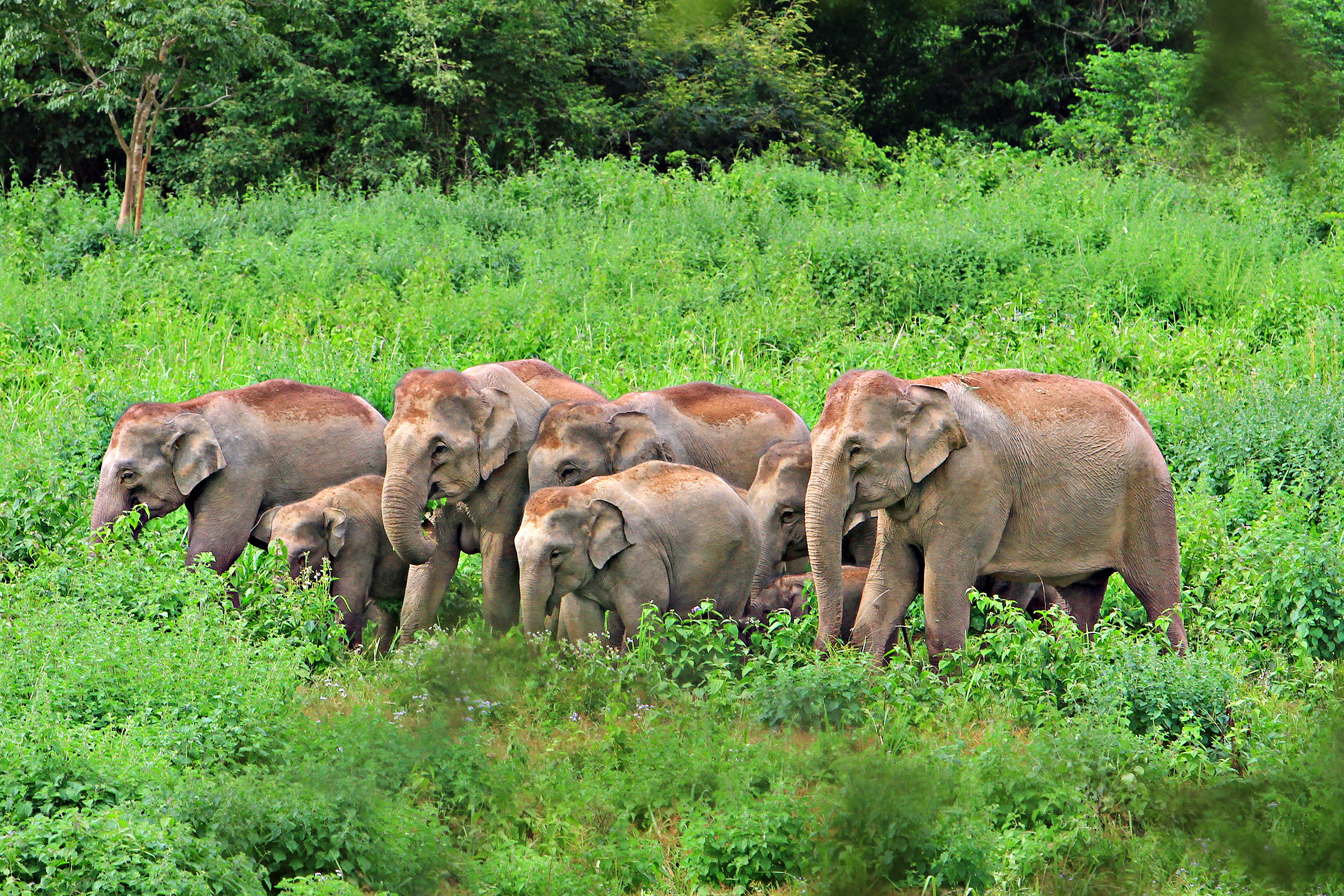 A herd of wild elephants in Kui Buri National Park, Prachuap Khiri Khan Province